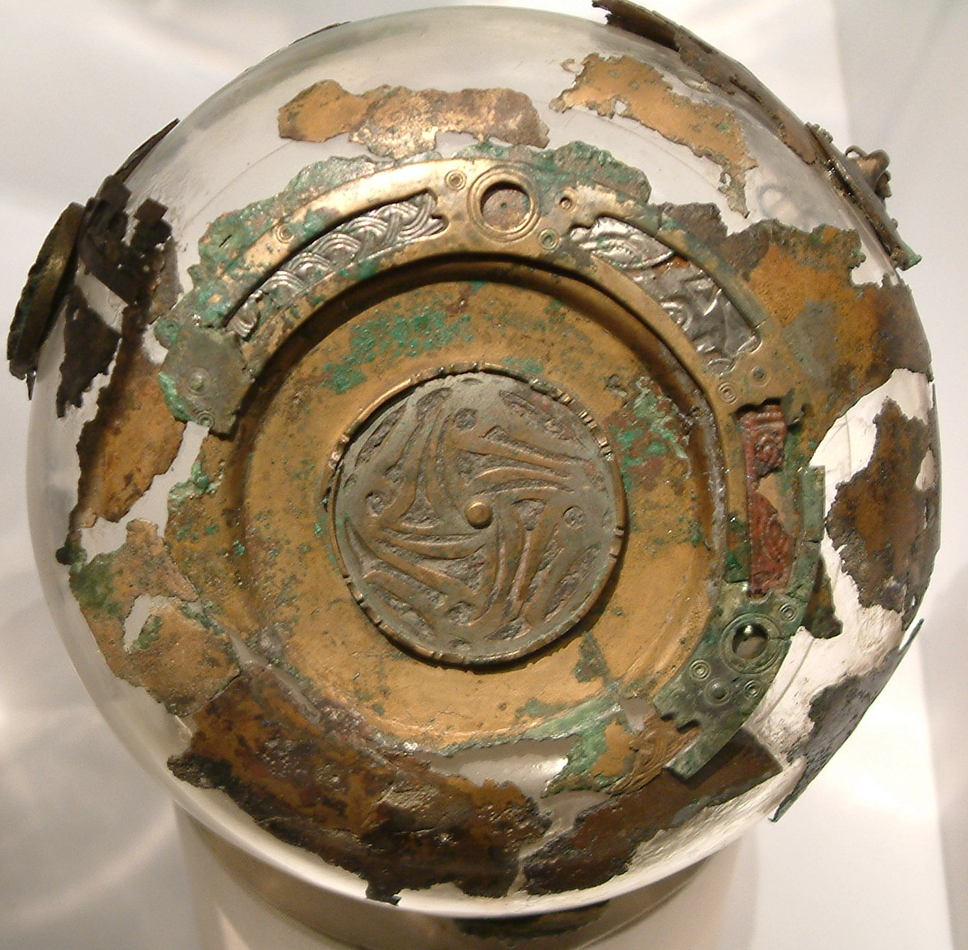 Bottom of hanging-bowl 2 from the Sutton Hoo ship-burial 1.